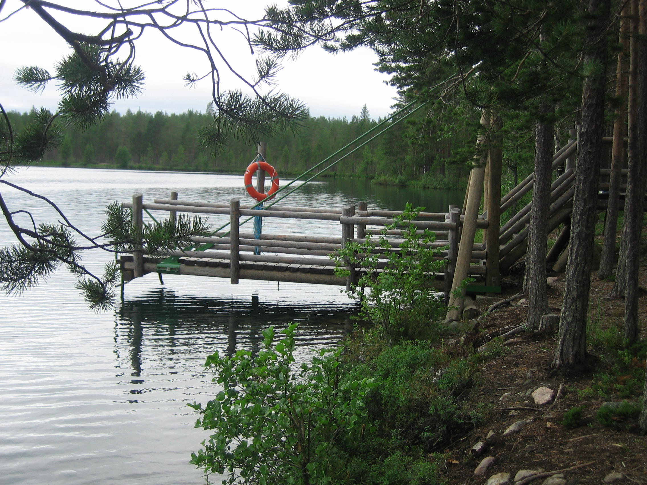 Lake Kirkaslampi in Marttisjärvi (Juorkuna), Utajärvi, Finland.